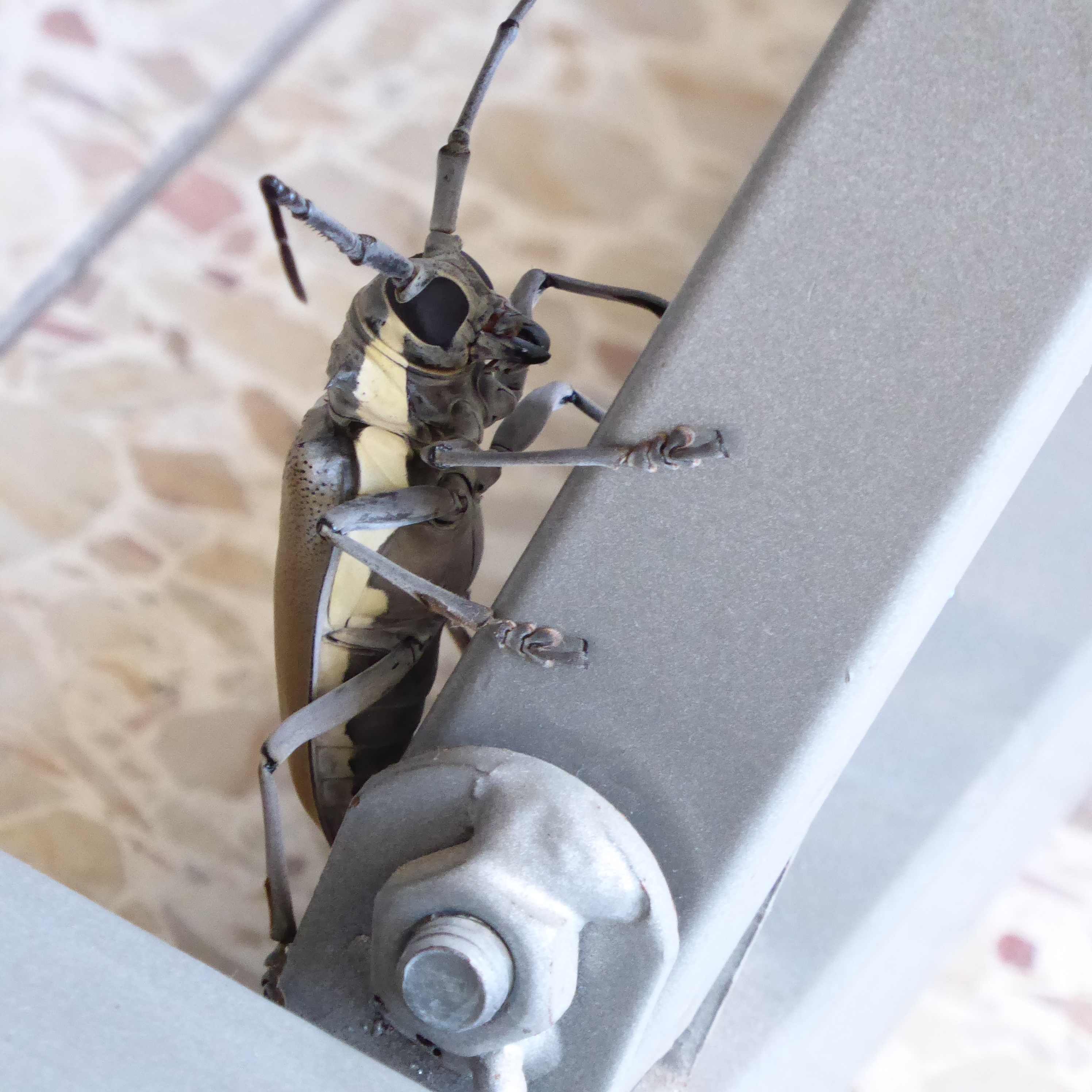 Batocera rufomaculata